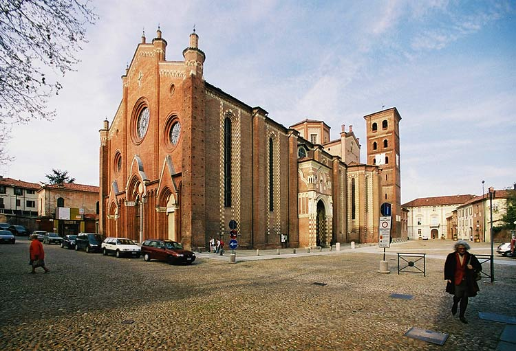 A photograph of the fourteenth-century gothic cathedral of Asti, Italy seen from the (ecclesiastical) south west. (Olympus OM-4, Sigma 14mm lens; image cropped all round.)